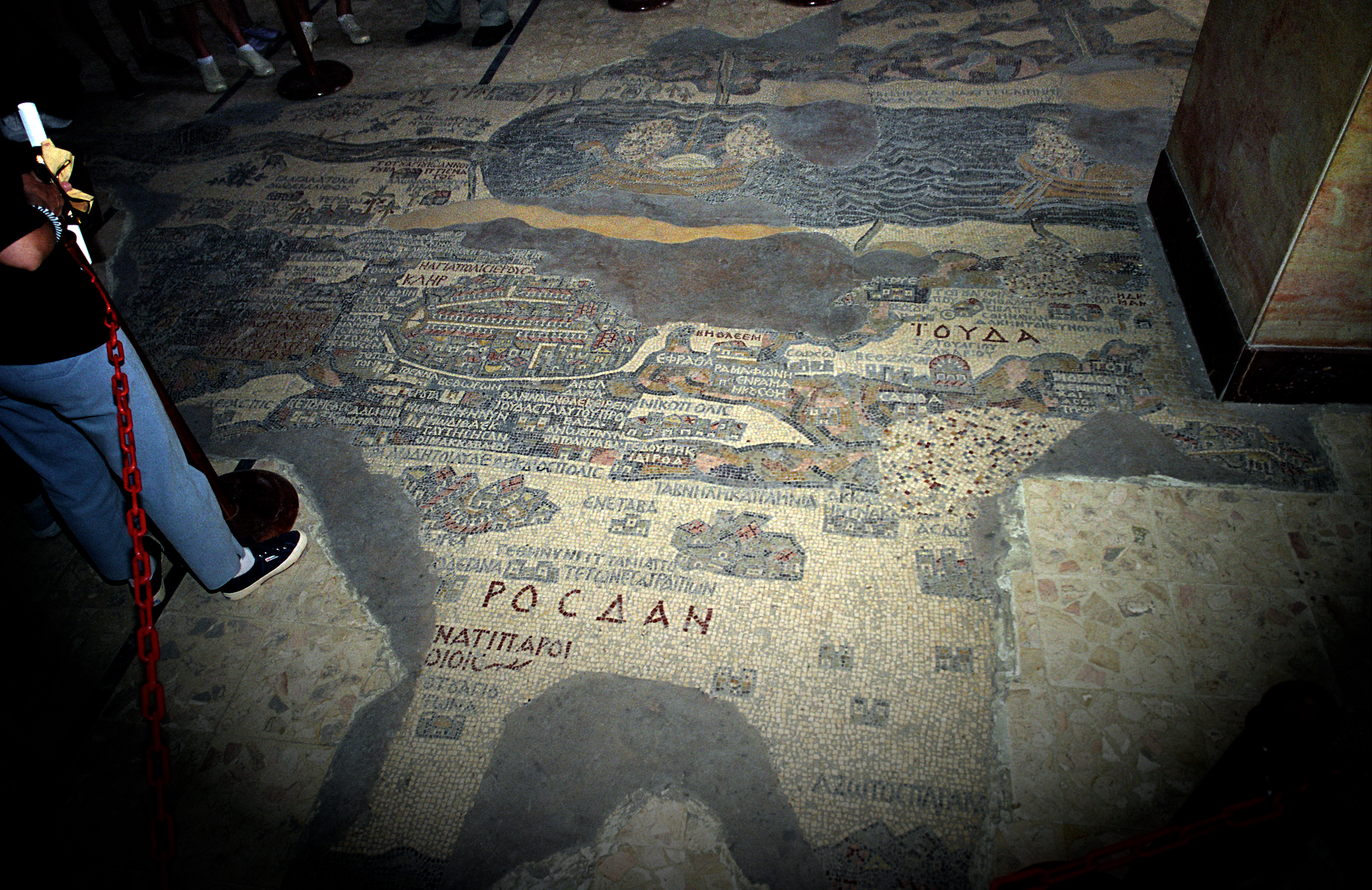 the Madaba Mosaic Map - the Greek Orthodox Basilica of Saint George